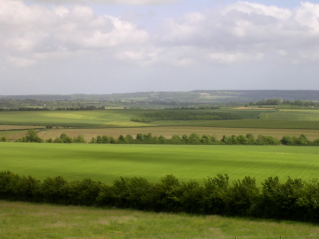 Danebury Down. Looking south from the trig point next to Danebury hillfort's entrance, with Farley Mount in the distance on the other side of the Test valley.